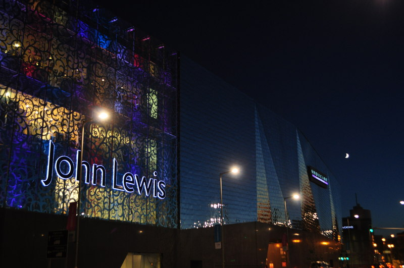 John Lewis at Night, near to Leicester, Great Britain. A view of the modern and beautiful frontage of the John Lewis and cinema. Link